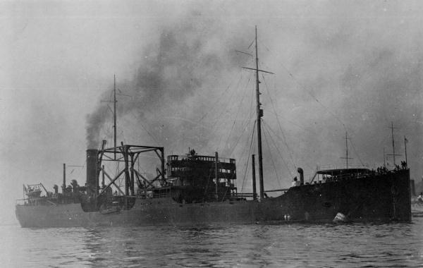 Japanese Fleet Oiler Kamoi 1926 off Yokosuka.